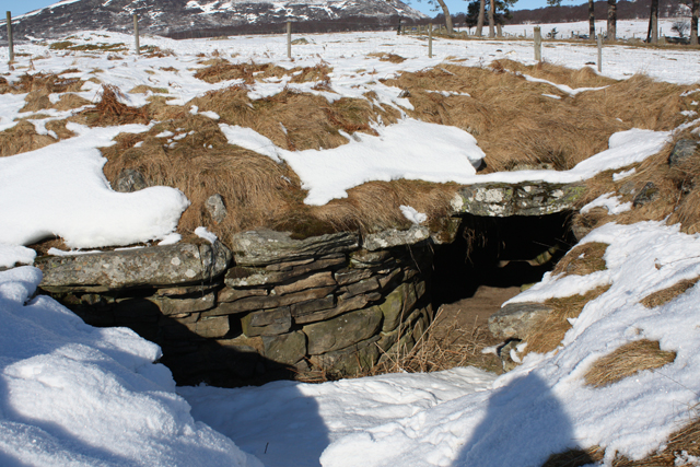 Raitts Cave A souterrain near Lynchat which dates to the later Iron Age (around AD 100 – 400). A stone built underground chamber, in a horseshoe shape, believed by archaeologists to have been used as a secure and cool storage chamber for food supplies. It was first excavated in 1835.